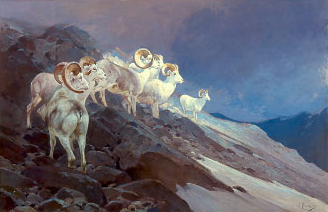 Wary Game "Wary Game is a large painting of a band of six white mountain sheep rams, (Ovis dalli), standing on rugged slide-rock at the foot of a precipice in the McMillin Mountains, Yukon Territory."[1]